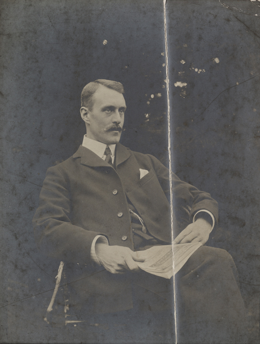 Creator: Unknown Date: 1905 Format: Photograph; gelatin silver print Material: Paper Collection: The Royal Photographic Society Collection at the National Media Museum Inventory no: 2003-5001/2/22888 Blog post: Snappy 5th birthday Flickr Commons John Dudley Johnston (1868 - 1955) was born Liverpool. He studied music and was, at one time, Director of the Liverpool Philharmonic Society. He was a noted Pictorialist photographer, a collector, curator and driving force behind the Royal Photographic Society's photographic collection. He was an elected member of the RPS in 1907; admitted FRPS in 1925; awarded Hon. FRPS in 1925; President of the RPS 1923 to 1925 and again 1929 to 1931; awarded RPS Progress Medal in 1952. Curator of the RPS Collection from 1924 to 1955. Elected Member of the Linked Ring Brotherhood, 22 Oct 1908. Awarded OBE for services to photography in 1948.